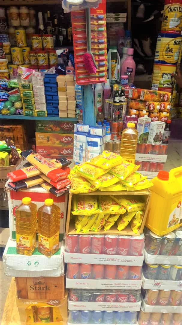 This is an image with the theme "Africa on the Move or Transport" from: Democratic Republic of the Congo